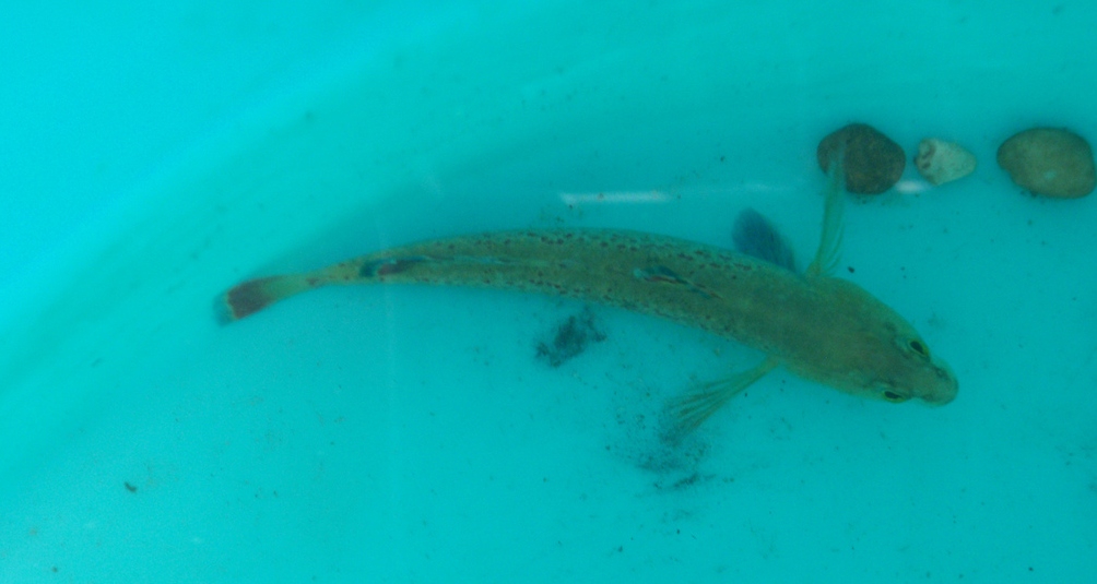 A redfin darter captured in a tank at the Natchitoches National Fish Hatchery. This fish may be host fish for the Louisiana pearlshell mussel.